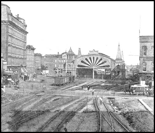 Atlanta Union Depot (built 1871)